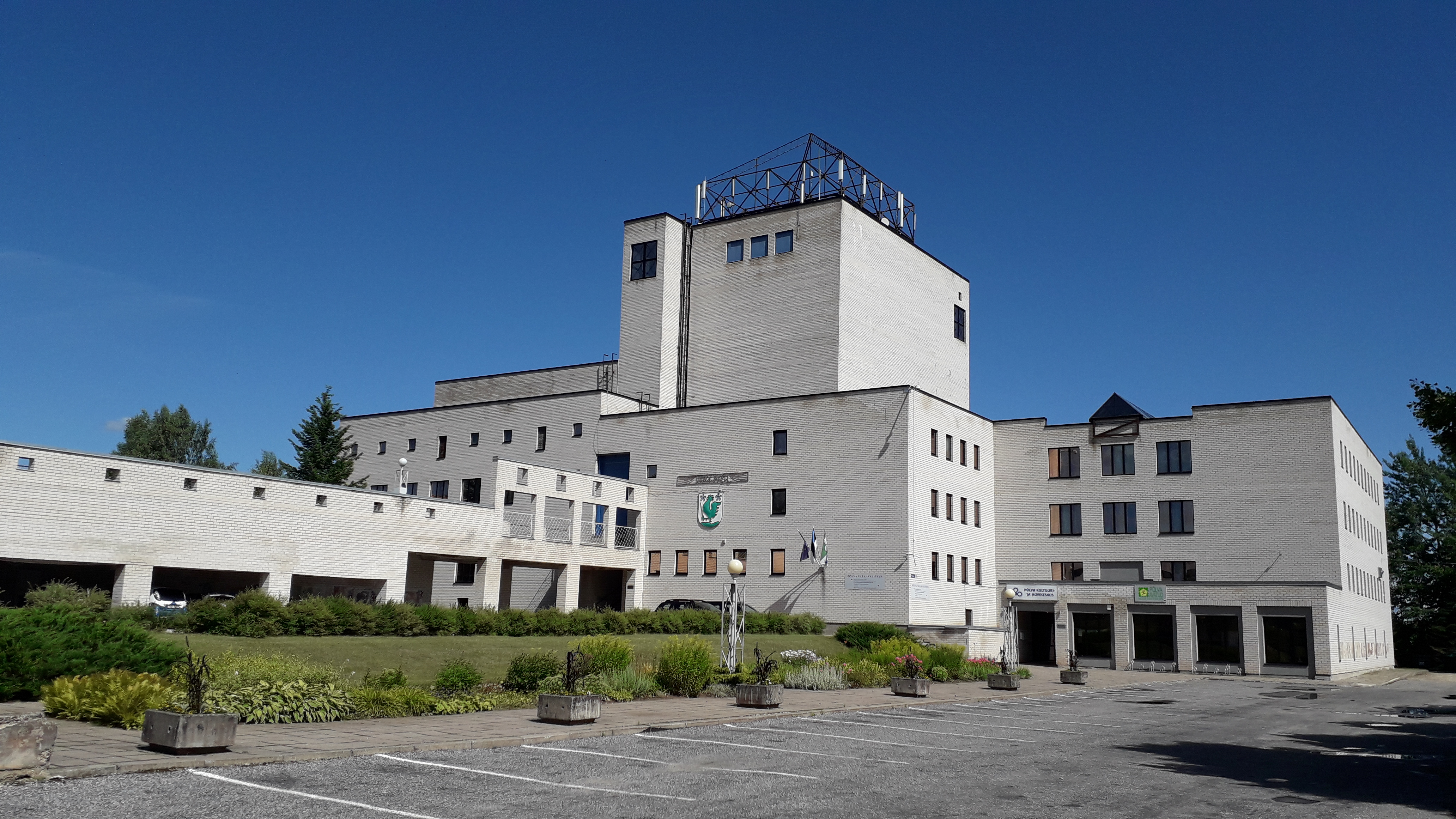 Põlva Kultuuri- ja Huvikeskus